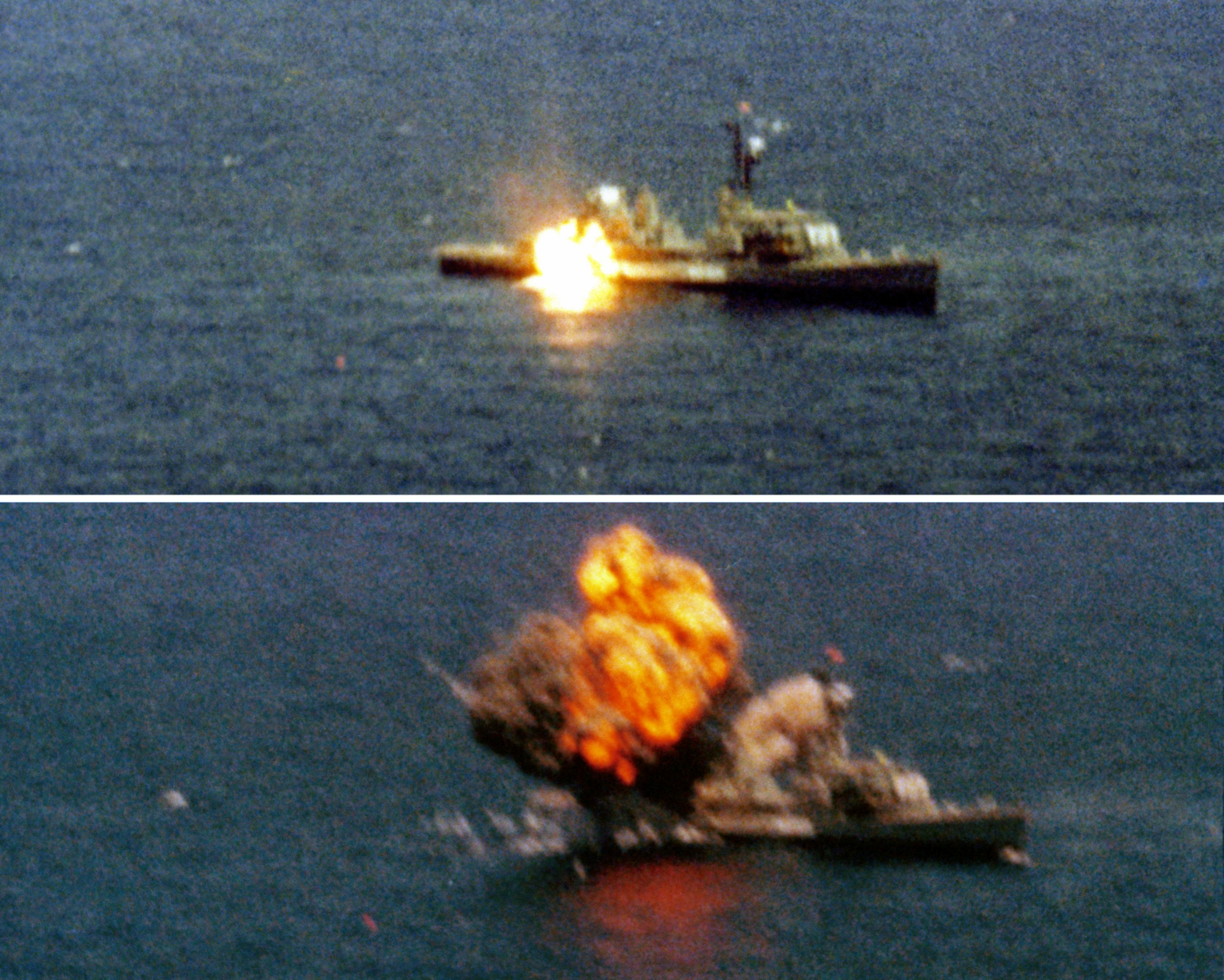 A U.S. Navy UGM-109 Tomamhawk cruise missile hits (and sinks) the target ship, the decommissioned Gearing-class destroyer USS Agerholm (DD-826), off Point Mugu, California (USA). The Tomahawk was launched from a distance of ca. 320 km from the nuclear-powered attack submarine USS Guitarro (SSN-665).